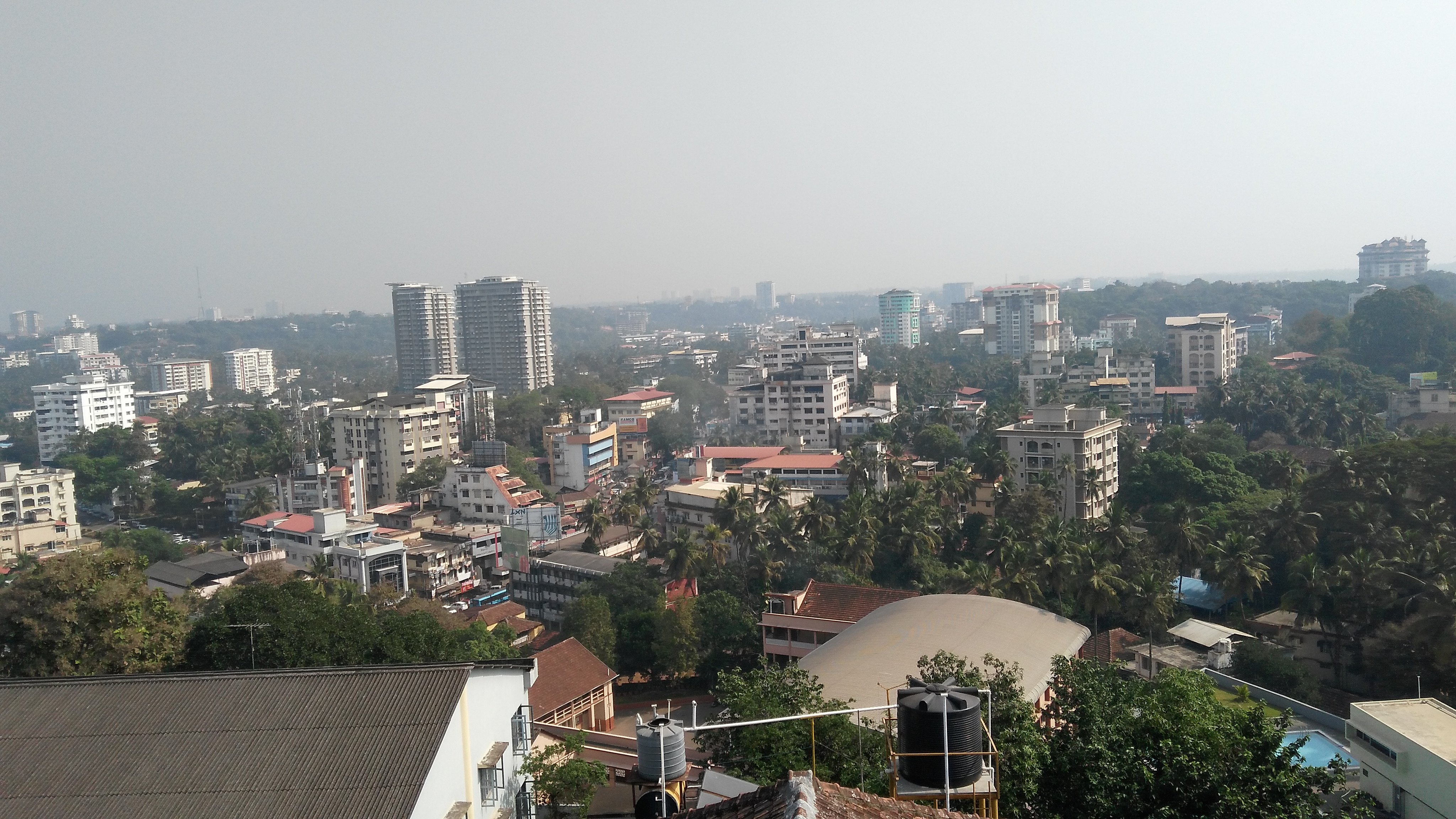 Aerial view of Mangalore city taken from St Aloysius tower